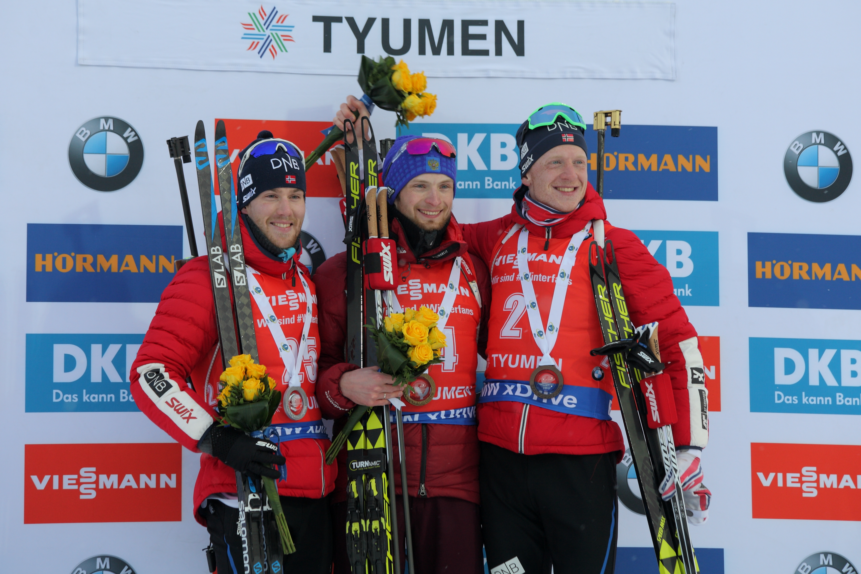 BMW IBU World Cup Biathlon 9 #TMN18 Tyumen 2018-03-25 Men 15km Mass Start